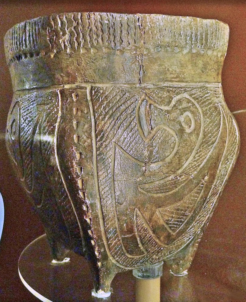 Native American Artifacts housed at Hopewell Culture National Historical Park